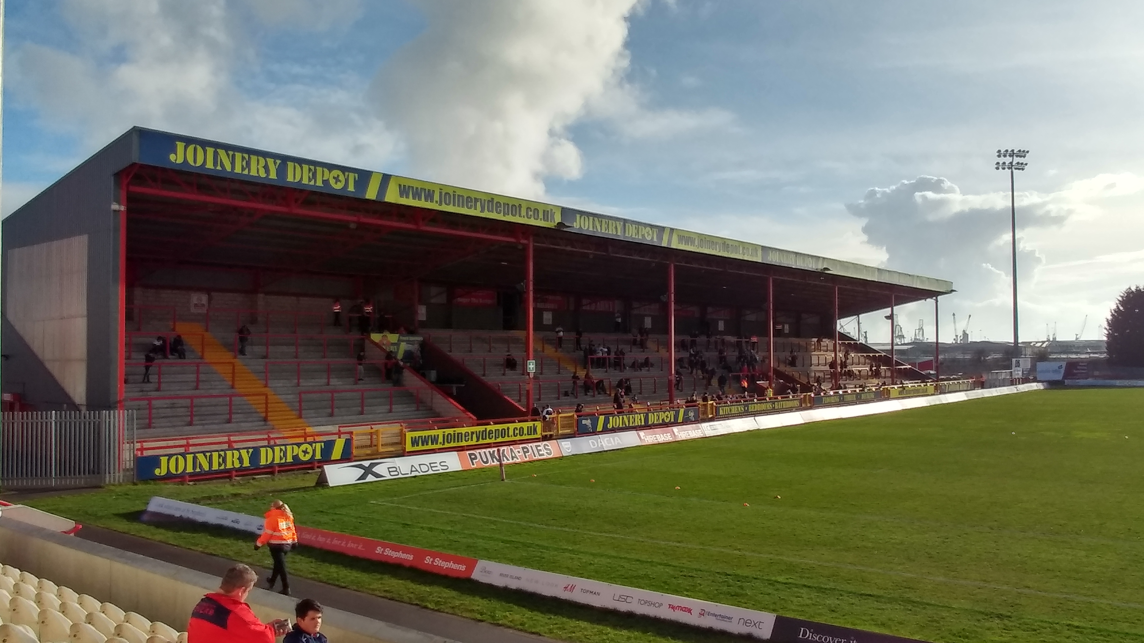 The Joinery Depot East Stand at KCOM Craven Park.